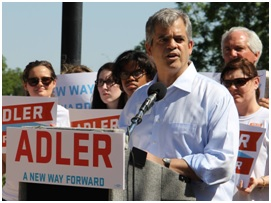 Adler campaign launch speech